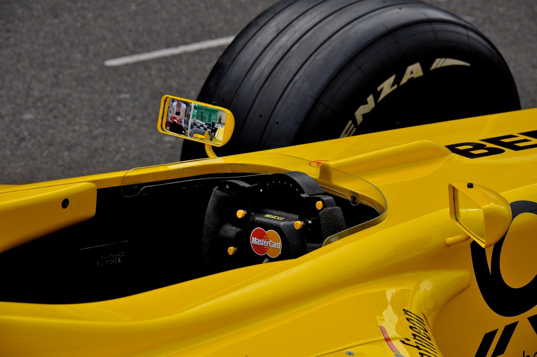 Jordan EJ11's cockpit exposed at 2010 Bury St-Edumunds Fesitval